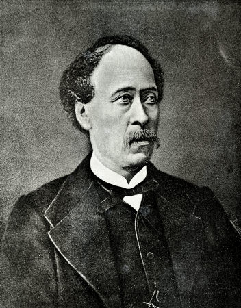 Konstantinos A. Karatheodori (1802-1879): Ottoman physician